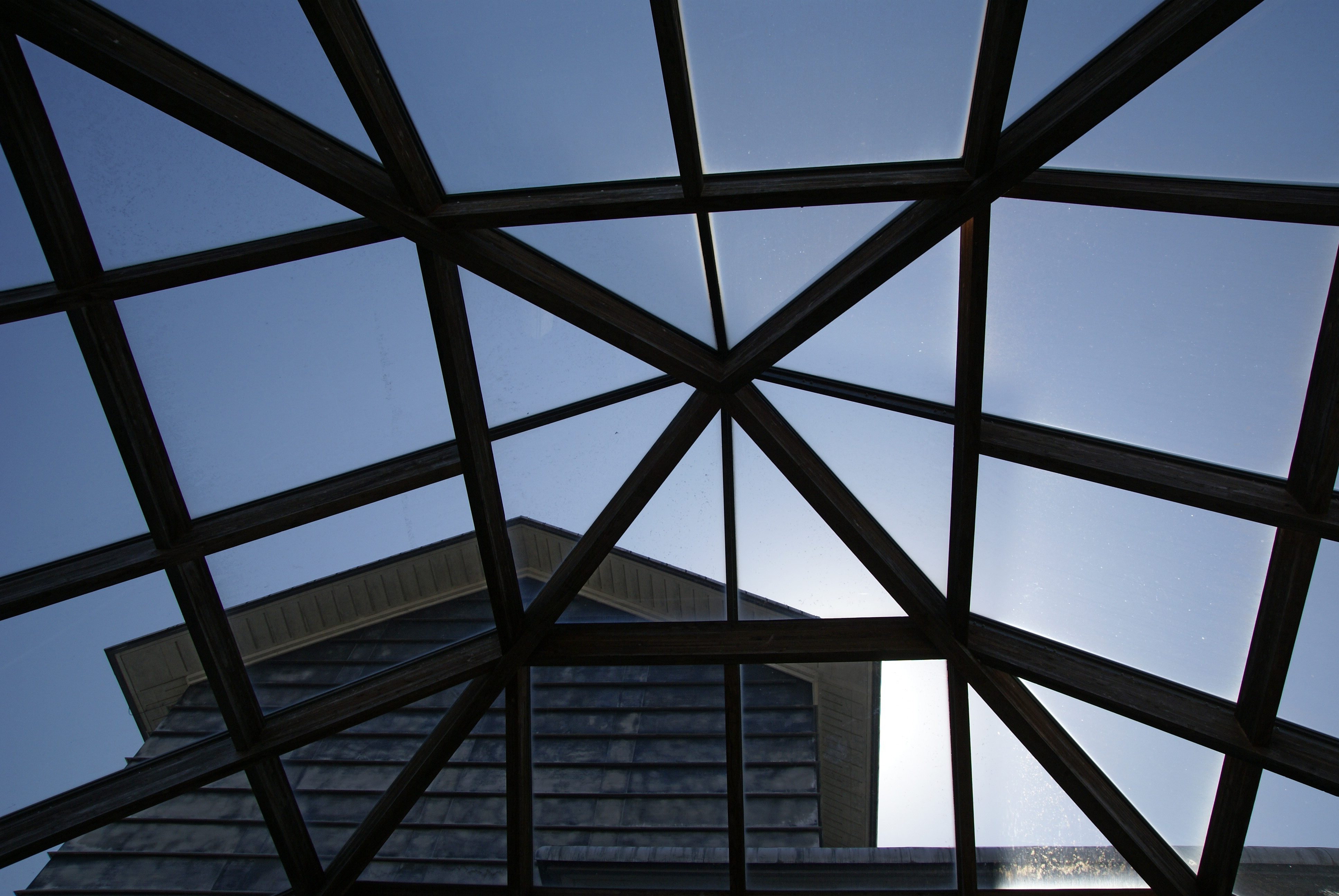 The Museum of Art, Kochi in Kochi, Kochi prefecture, Japan